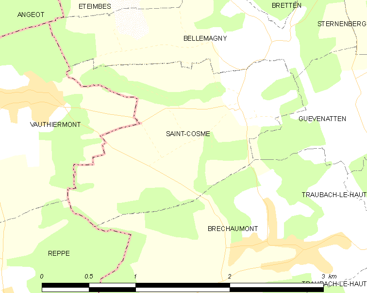 Map of French municipality